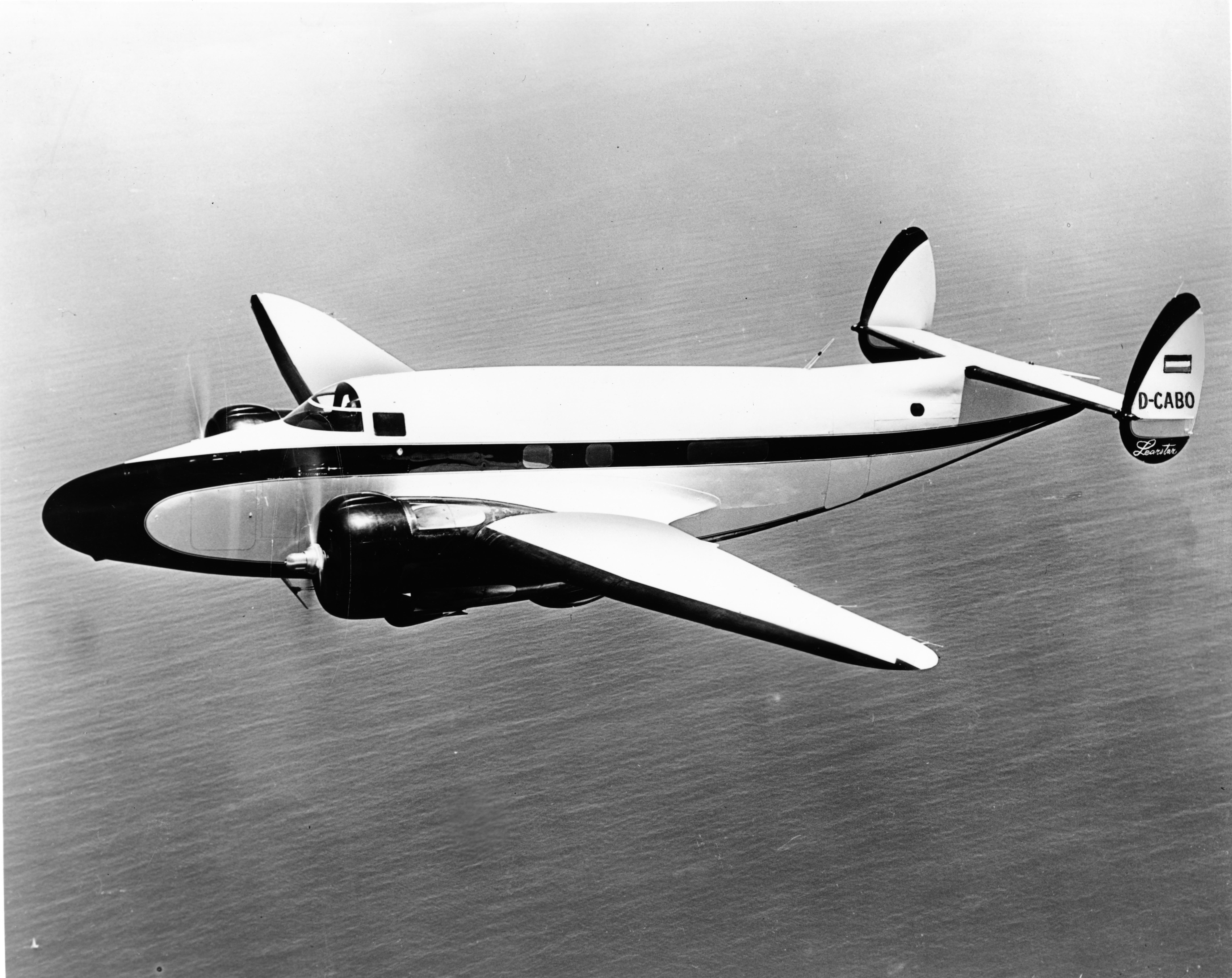 Image from the Dohm-Zweng Collection